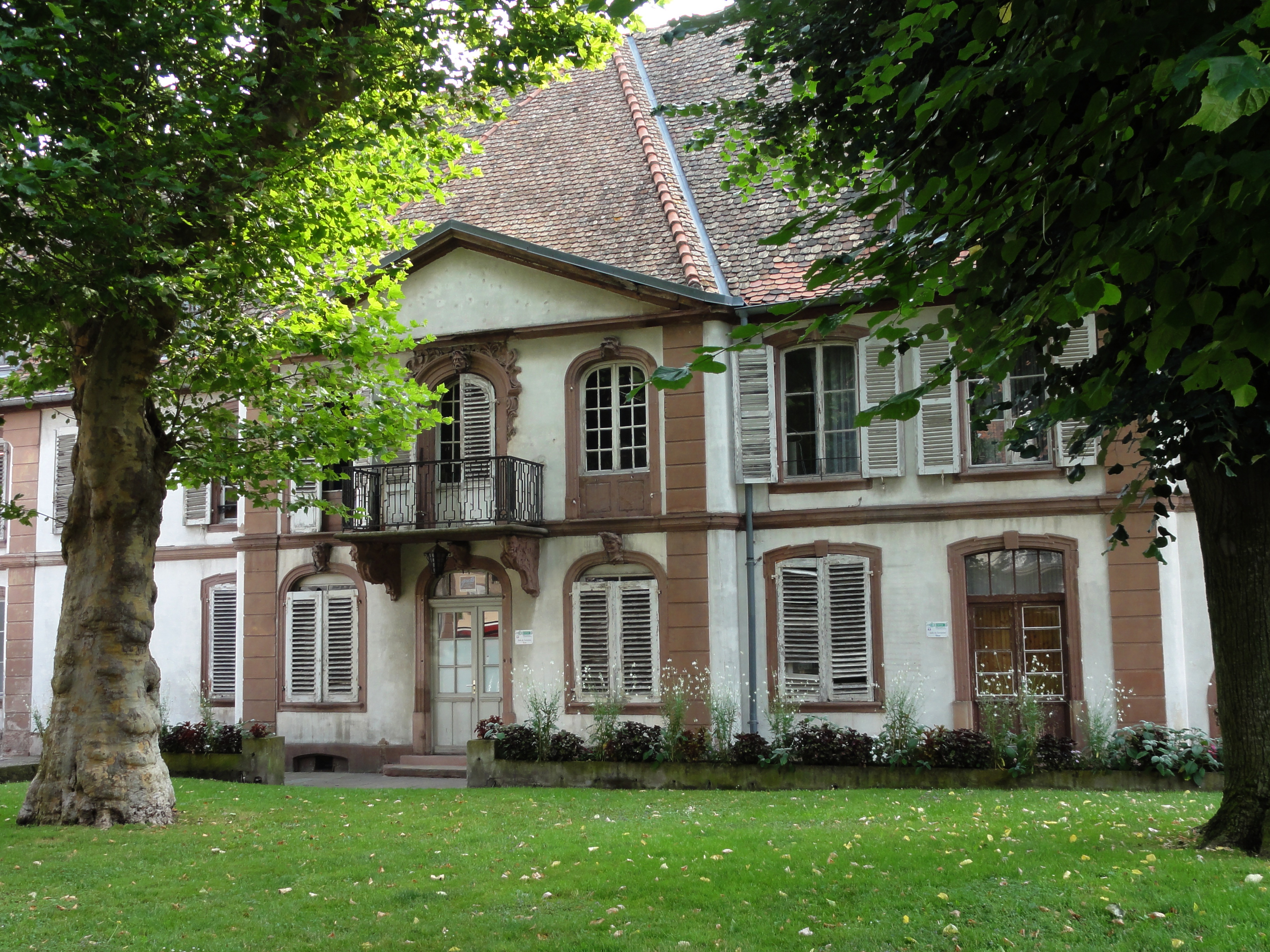 Alsace, Bas-Rhin, Haguenau, Ancien hôtel du Commandant de la Place (XVIIIe), 11 rue Georges Clemenceau. It is indexed in the Base Mérimée, a database of architectural heritage maintained by the French Ministry of Culture, under the references PA00084731 and IA00061960 .